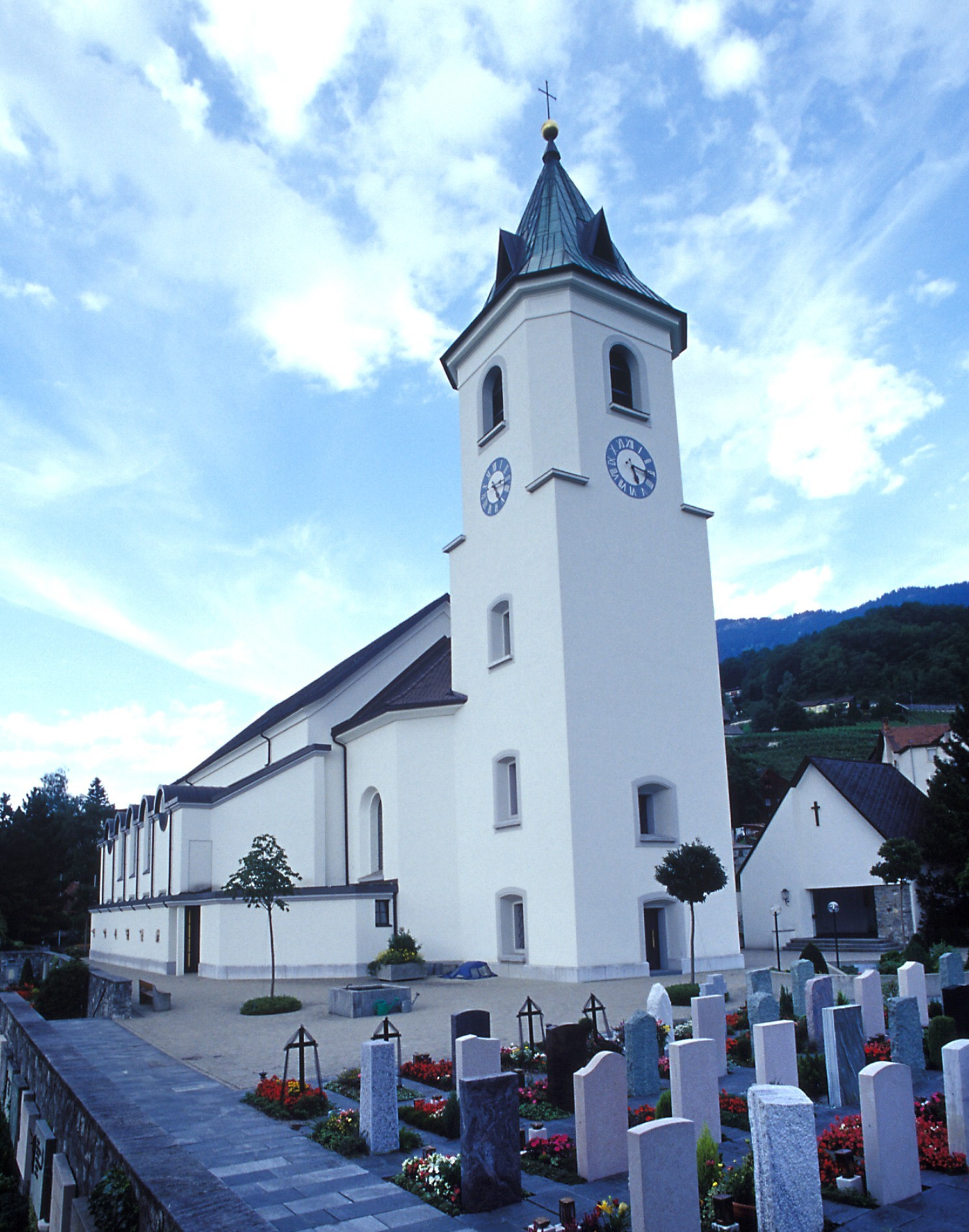 Parish Church Saint Gallus in Triesen, principality of Liechtenstein